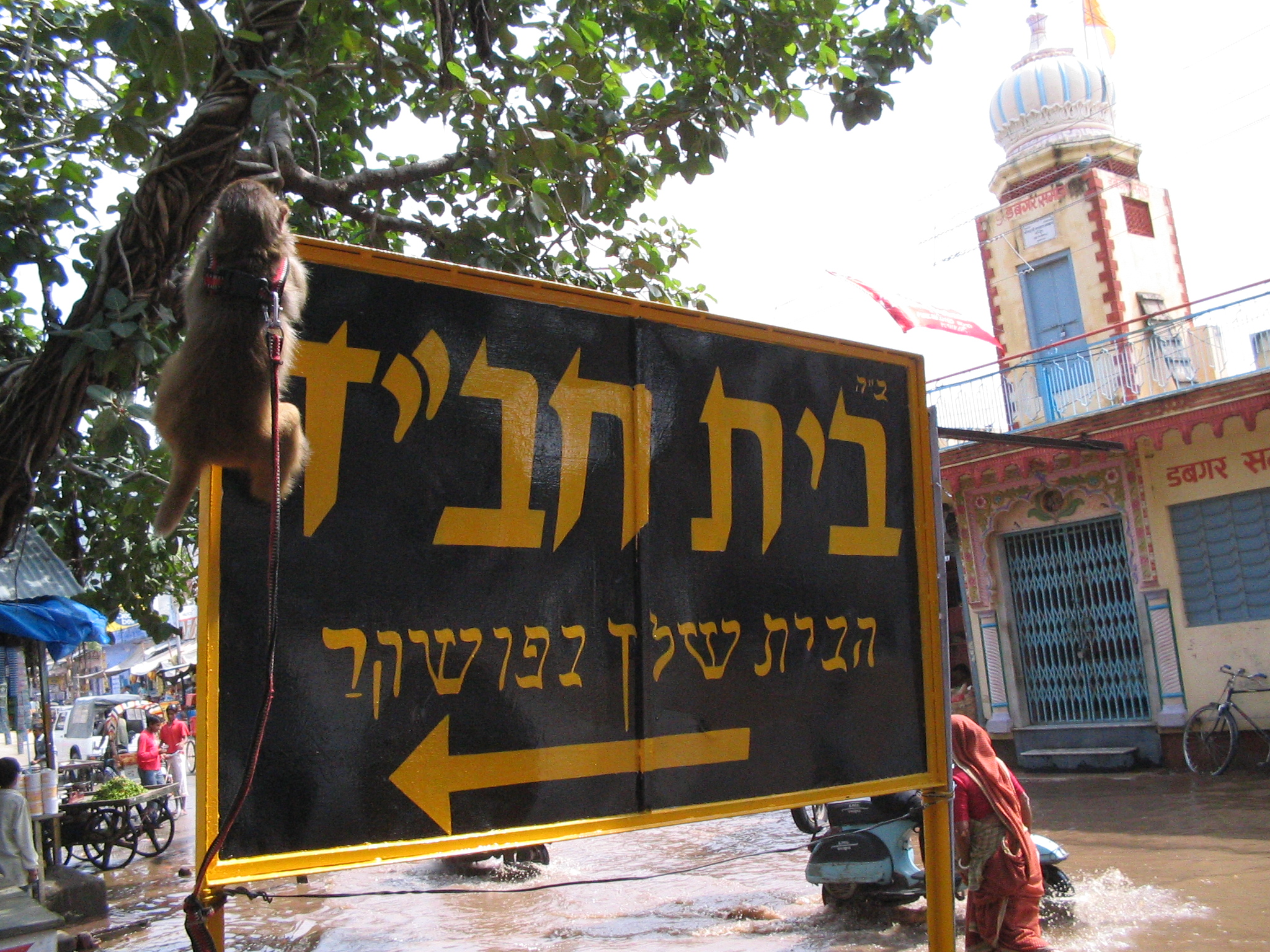 Sign at the entrance to the Chabad House in Pushkar India